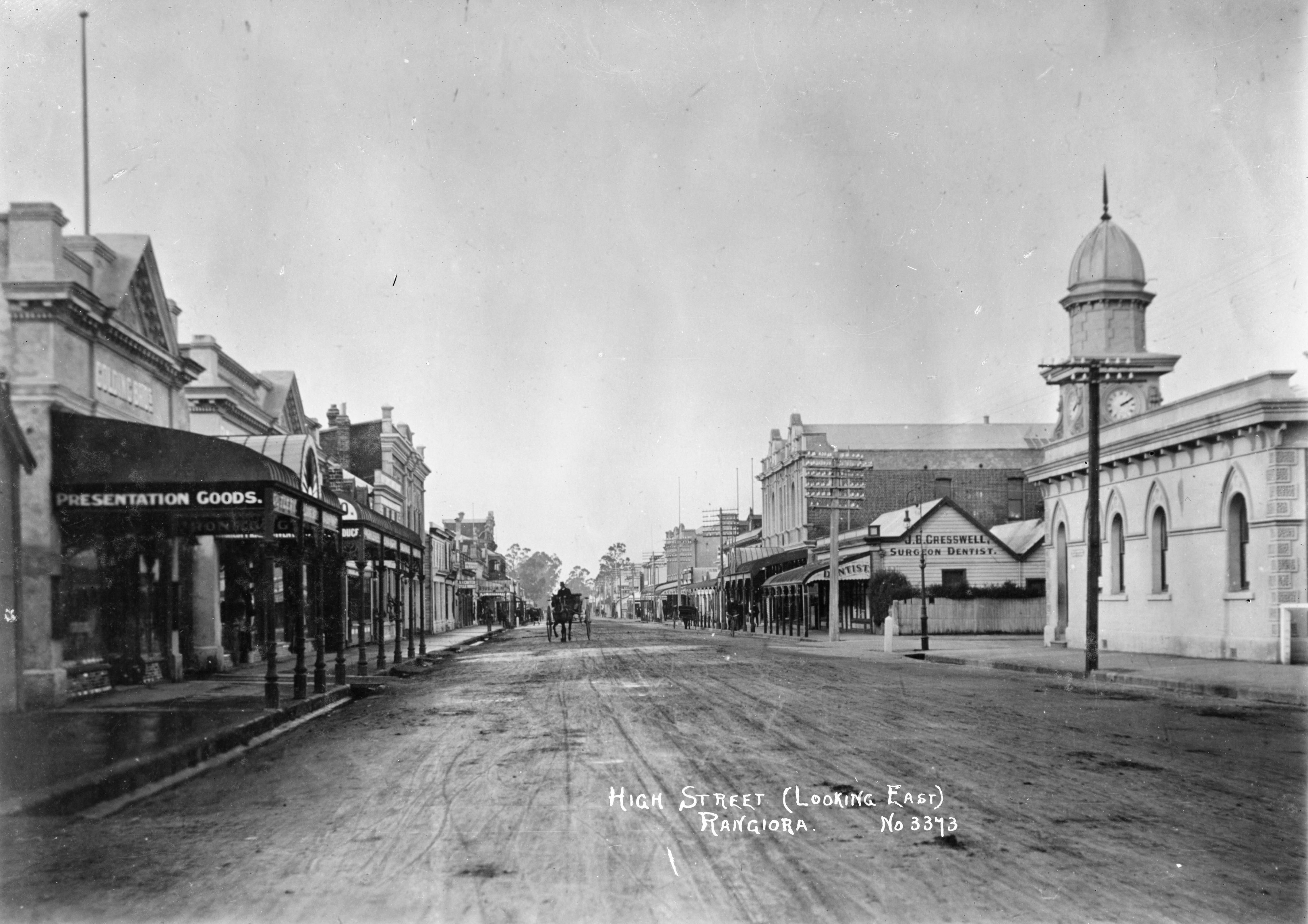 View looking east along High Street, Rangiora, with the post office and clock tower on the right and the premises of J B Cresswell (surgeon dentist), centre right. Photograph taken by William A Price circa 1910s Inscriptions: Inscribed - Photographer's title on negative -bottom centre: High Street (Looking east). Rangiora. No. 3373. Quantity: 1 b&w original negative(s). Physical Description: Dry plate glass negative 4.75 x 6.5 inches High Street, Rangiora. Price, William Archer, 1866-1948 :Collection of post card negatives. Ref: 1/2-001845-G. Alexander Turnbull Library, Wellington, New Zealand.